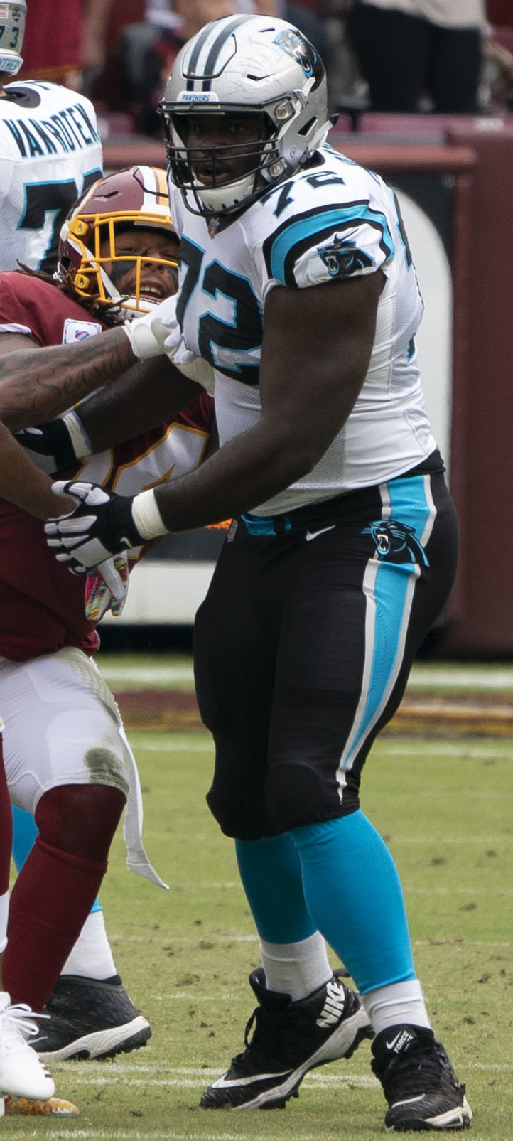 Dustin Hopkins of the Washington Redskins celebrates against the Carolina Panthers during a 2018 game at FedEx Field